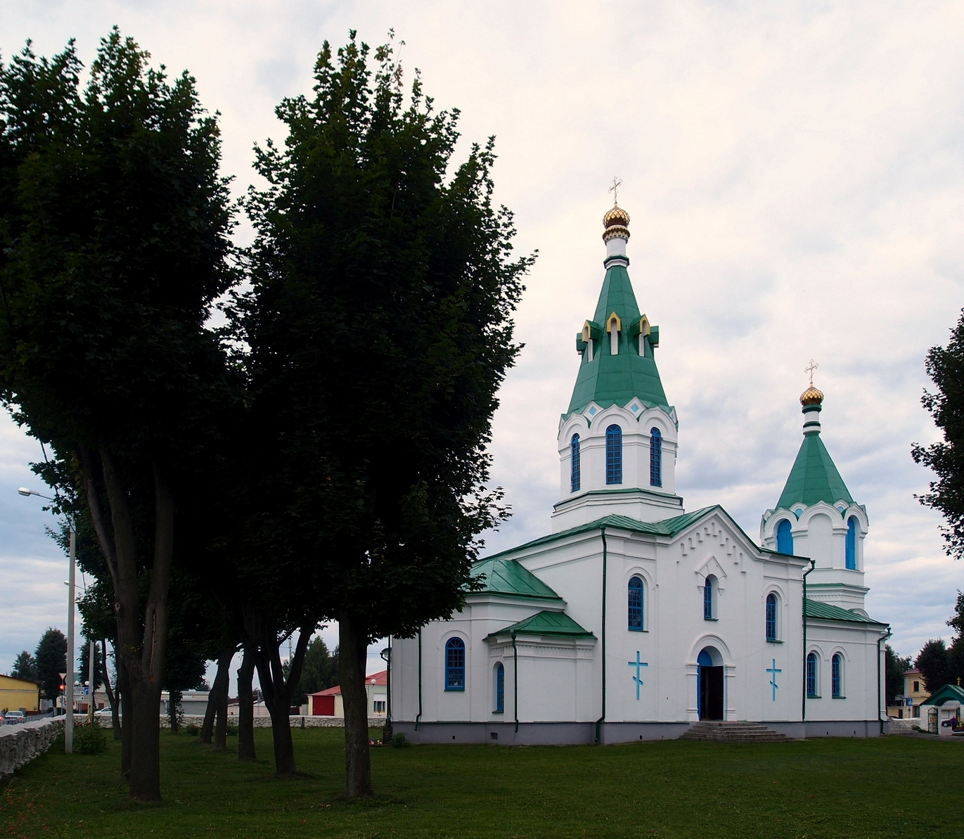 Orthodox church of the Protection of the Holy Virgin in Maladziečna Old Town, Belarus.